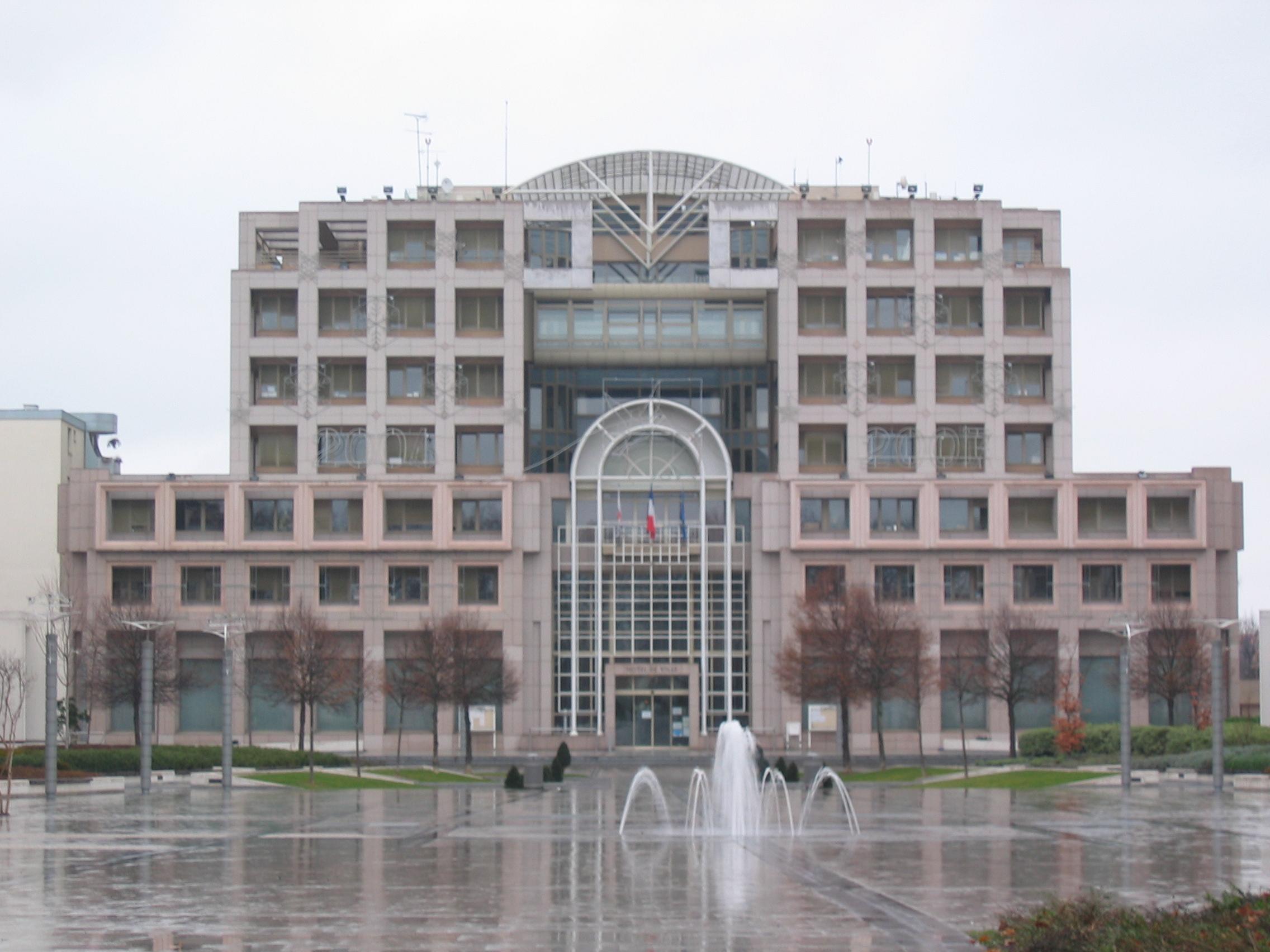 City hall of Colomiers (Haute-Garonne, France).